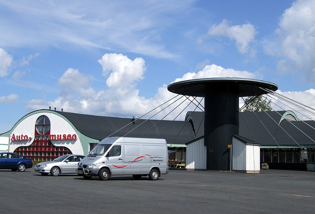 Automobile Museum in Oulu, Finland.